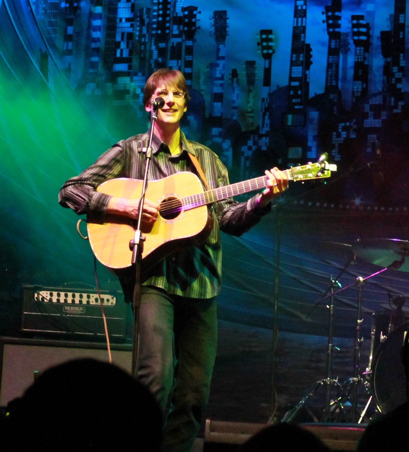 Roberto Dalla Vecchia in concert at an international guitar festival